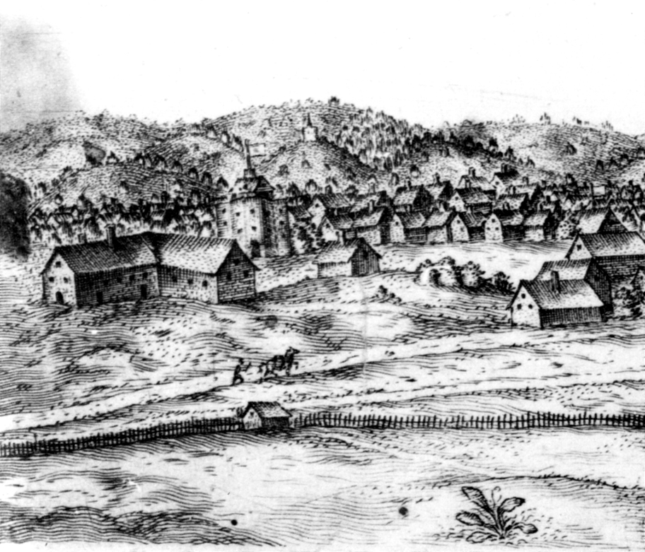 Detail from "The View of the Cittye of London from the North towards the South", an engraving by Abram Booth, c. 1599